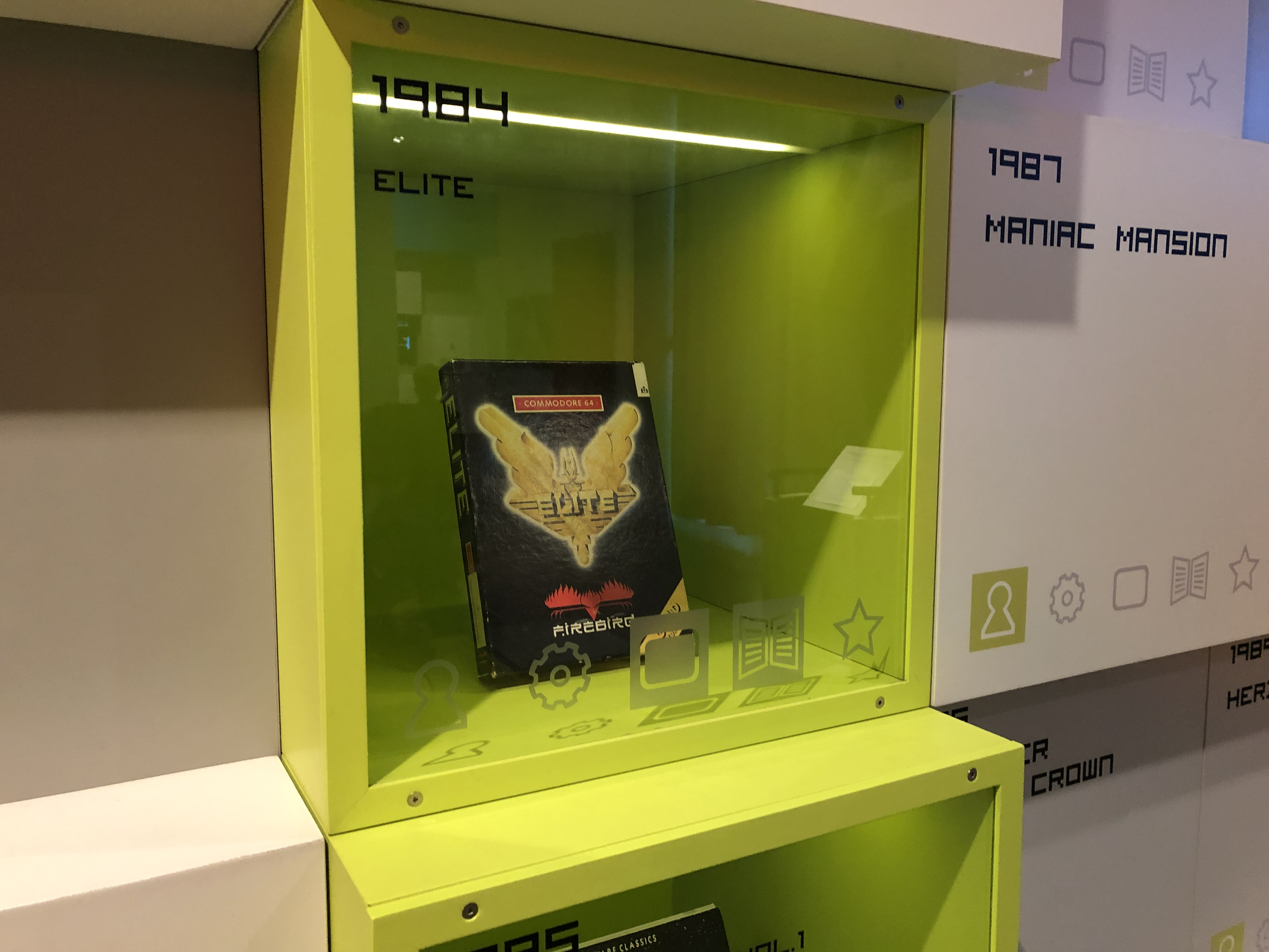 Video game Elite on historical wall of video games, Computerspielemuseum, Berlin